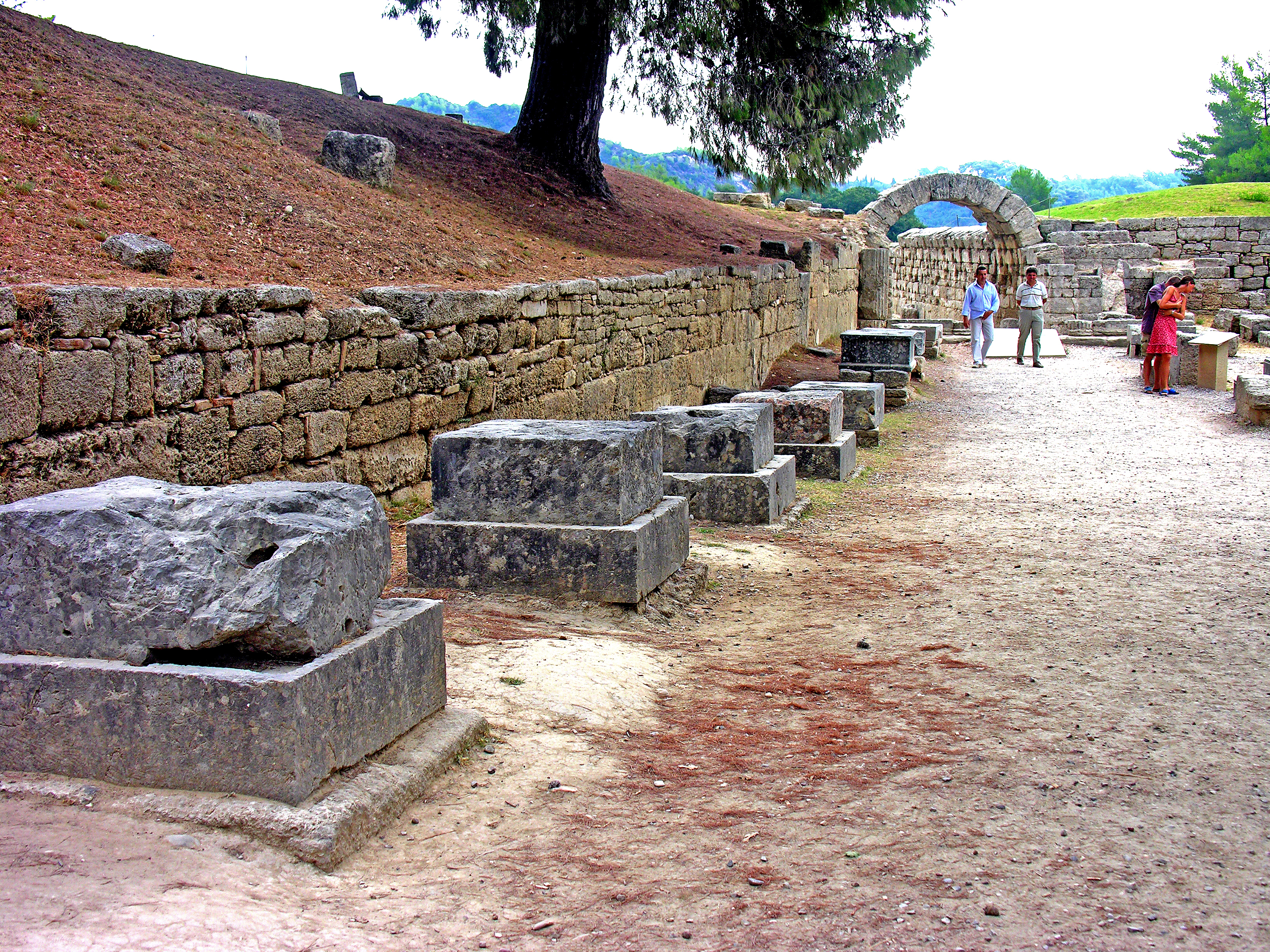 The Zanes (plural form of the name Zeus), were bronze statues of Zeus placed on the sixteen survived bases. They were erected with the fines imposed on athletes who had committed the offence of cheating. The inscriptions on the bases named the athlete and the nature of the infringement, for which he was penalized. The position of the Zanes along the way to the Stadium was a warning to all competitors.